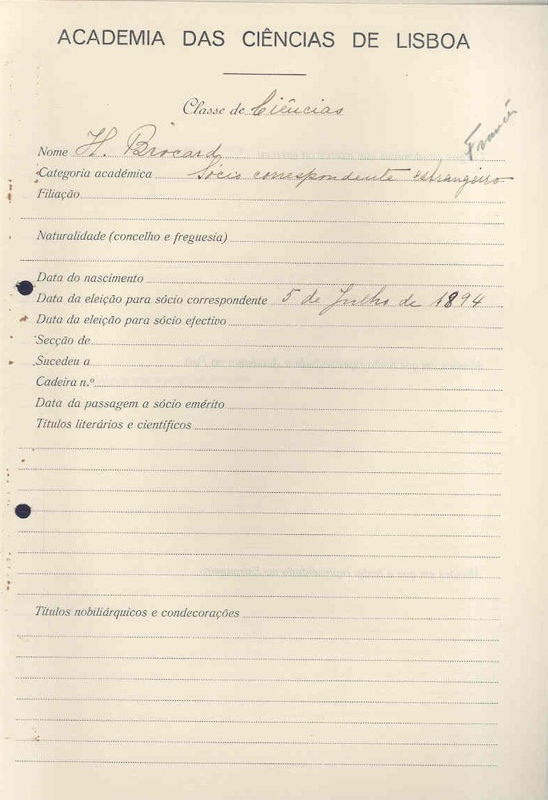 Henri Brocard's handwriting on a paper of Sciences Academy of Lisbon